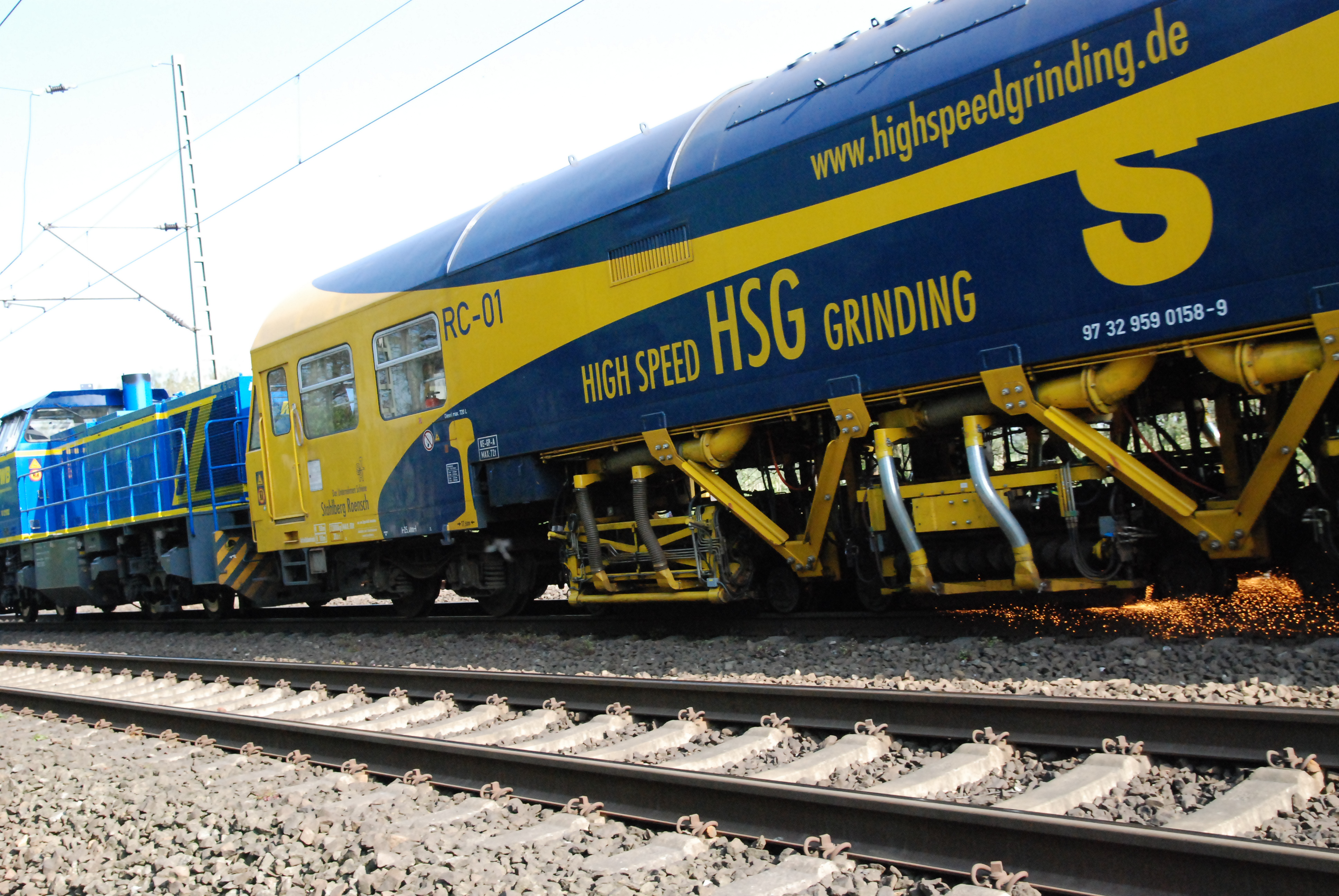 Stahlberg Roensch's High Speed Rail Grinding Train RC01 in action near Buchholz/Germany